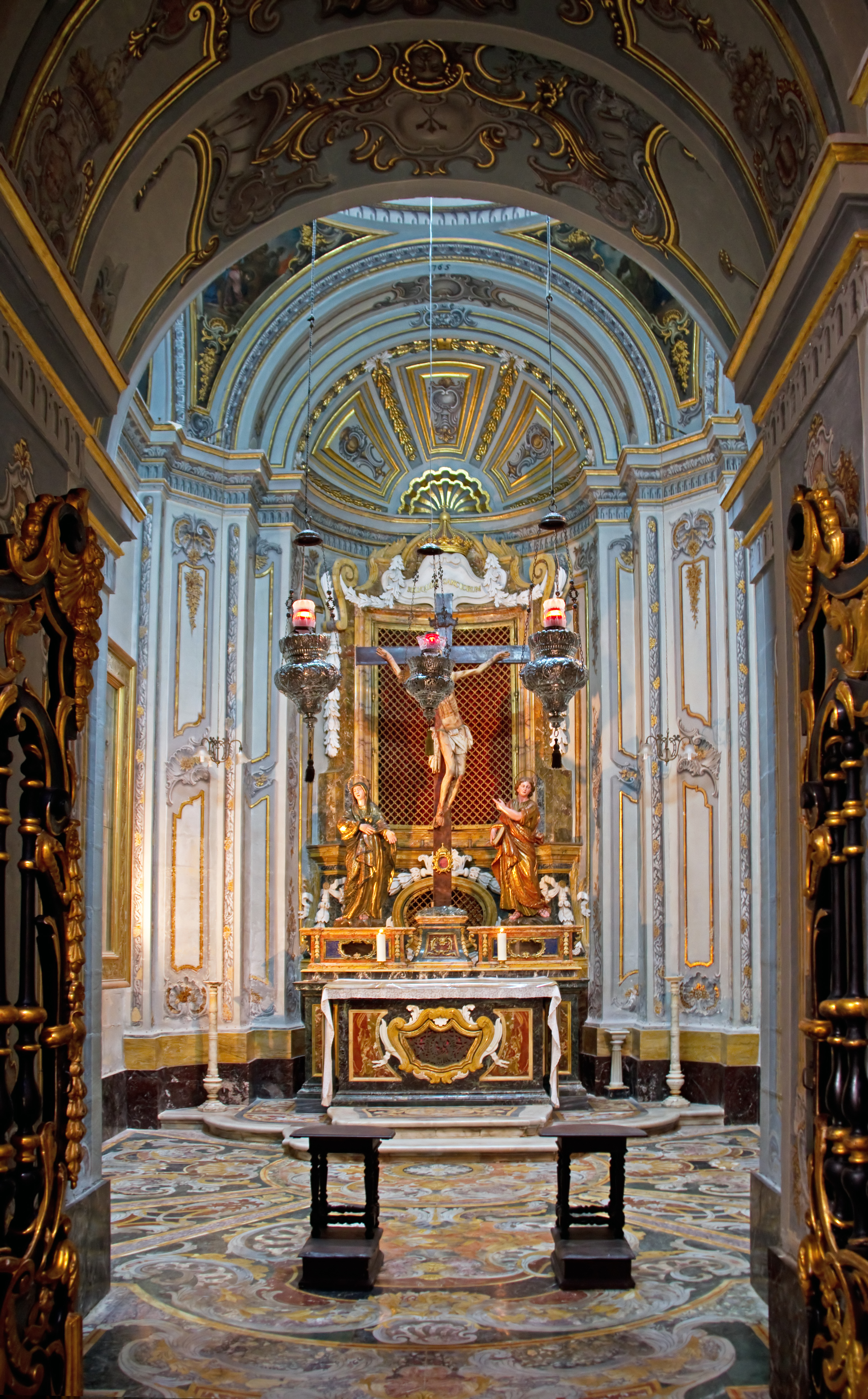 St Paul's Cathedral Interior 7